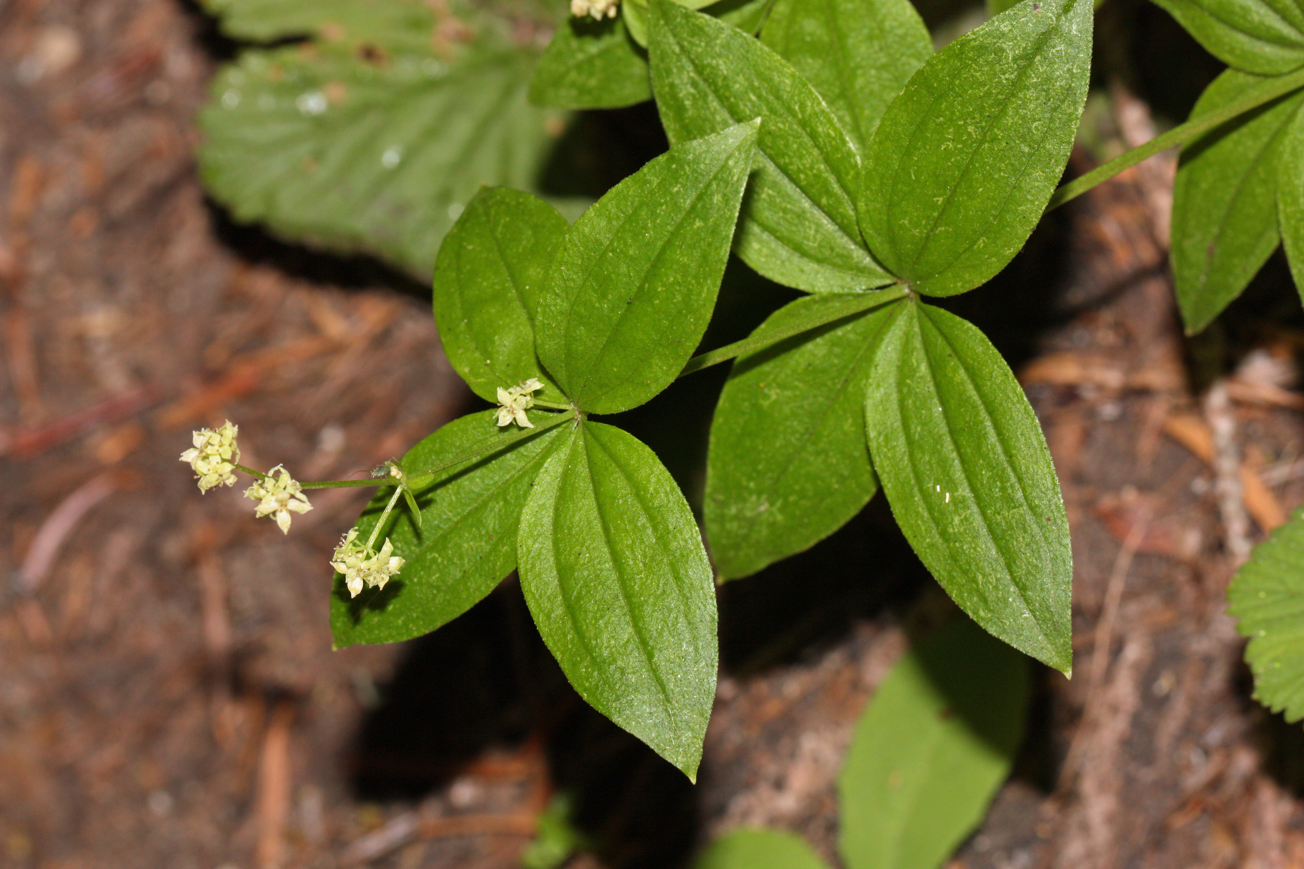 Oregon Bedstraw Viewpoint location: Sunrise Peak Trail 262 Dark Divide Viewpoint elevation: 1419 meter (4656 ft) Location source: Garmin GPSmap 60CSx Location Datum: WGS84